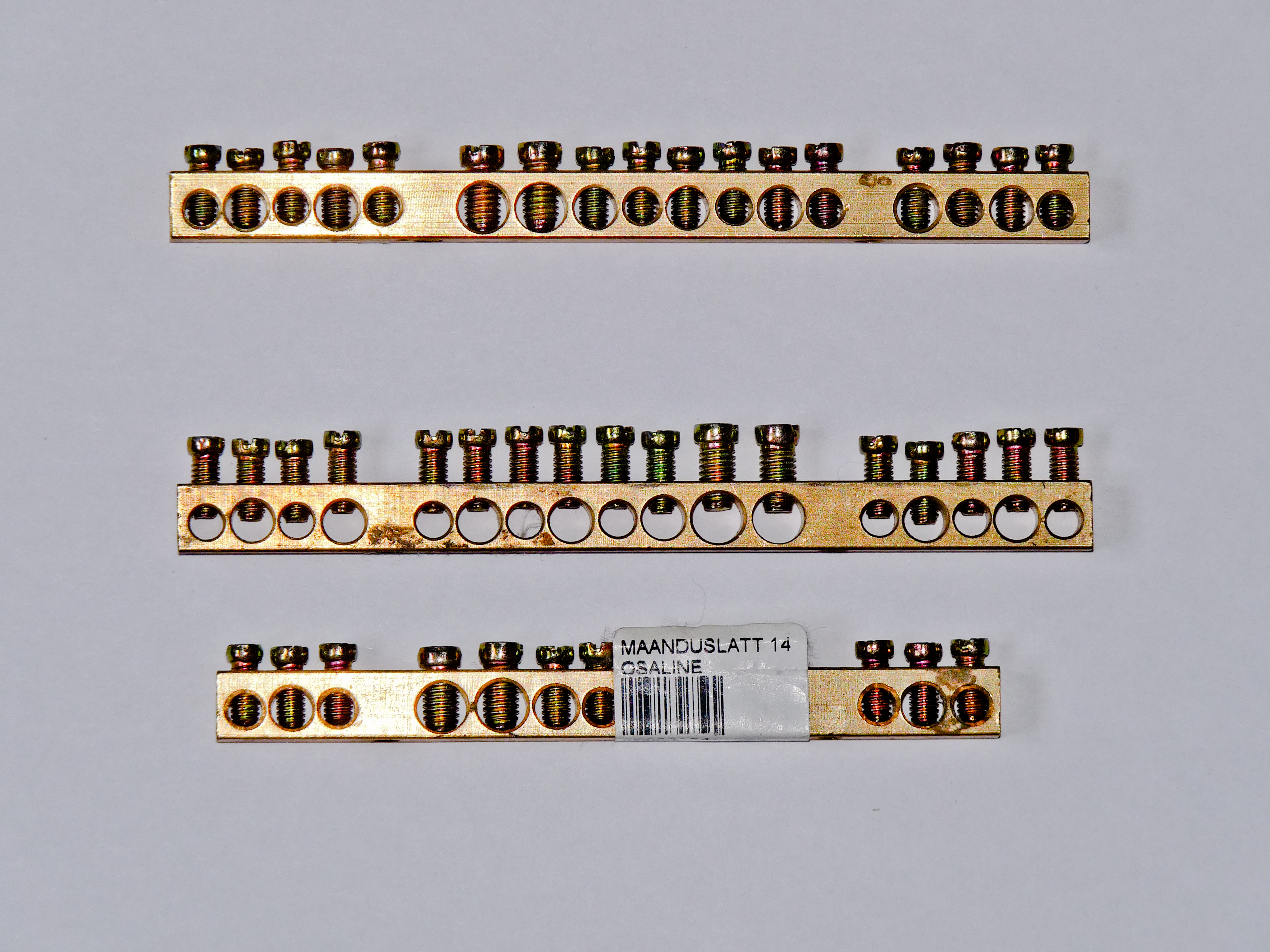 Busbars for earthing, various dimensions. As distribution board shoud be earthed, these busbars have no insulation to supply electric contact with its cover by screws.